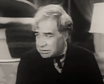 George F. Marion in the American film Death from a Distance (1935) - cropped screenshot